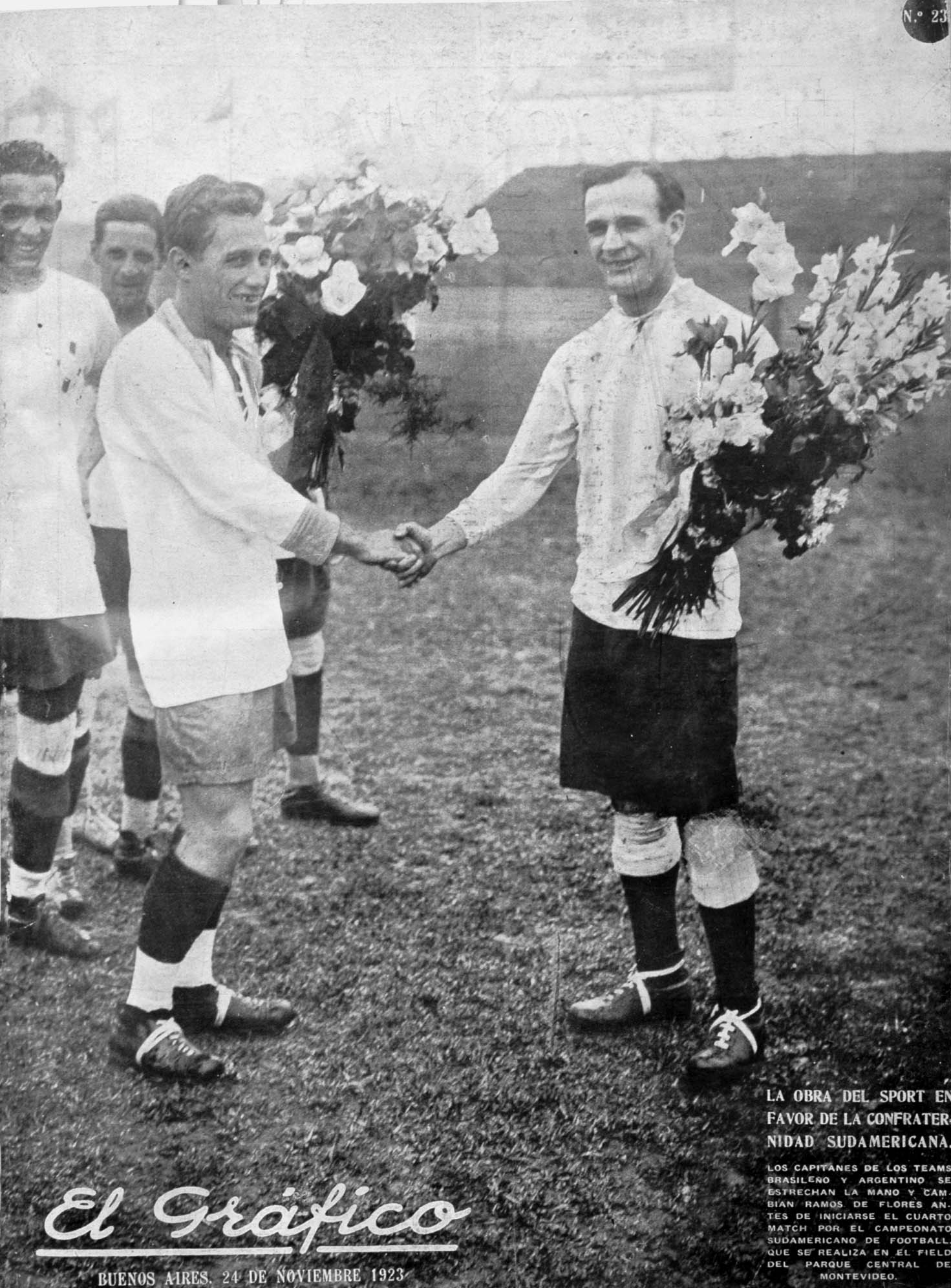 Captains of Brazil (left) and Argentina national football teams, shaking hands before playing their match at the 7th. South American championship (now "Copa América"). It was played in Parque Central of Montevideo, and Argentina won 2-1.